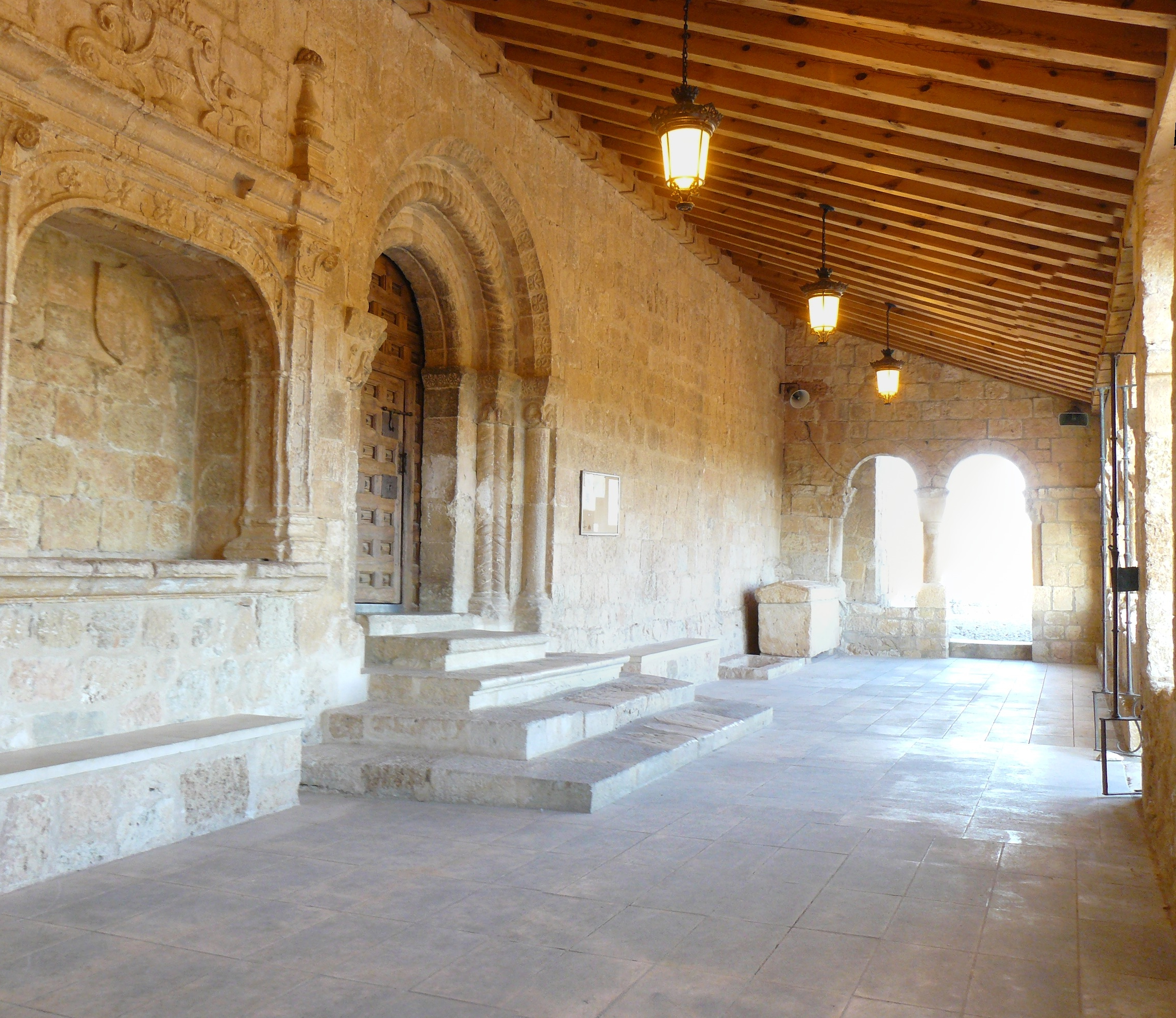 Entrance gallery of Church of Nuestra Señora del Rivero, San Esteban de Gormaz, Soria (Spain)